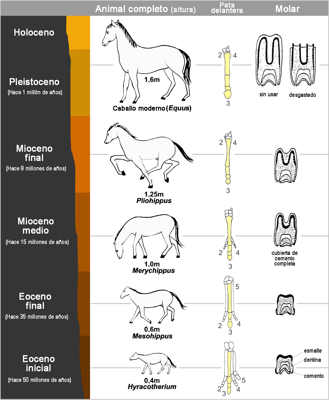 Evolution of horse, with labels in Spanish.